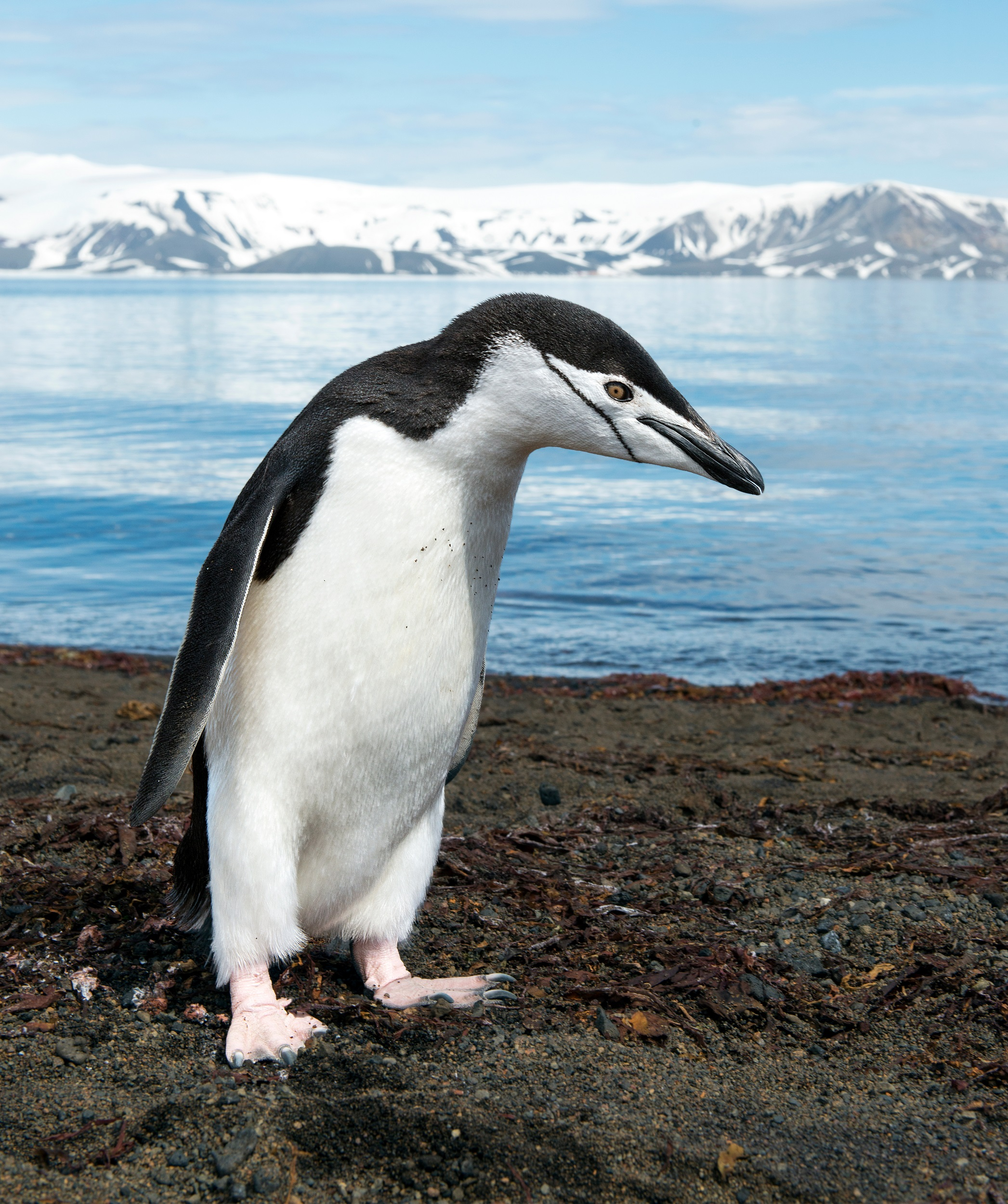 A chinstrap penguin (Pygoscelis antarcticus) on Deception Island in Antarctica.